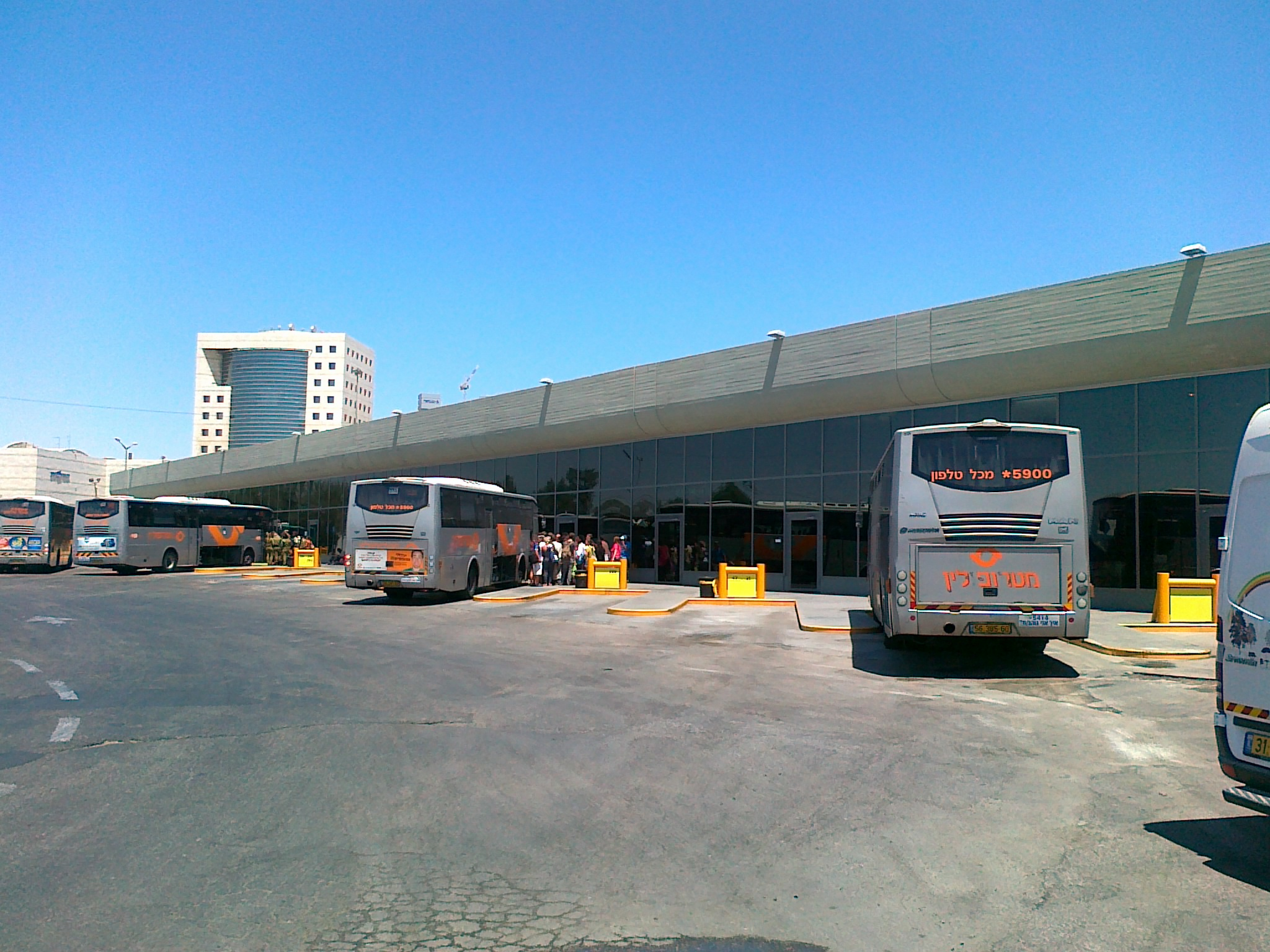 The new Beersheba Central Bus Station 2013